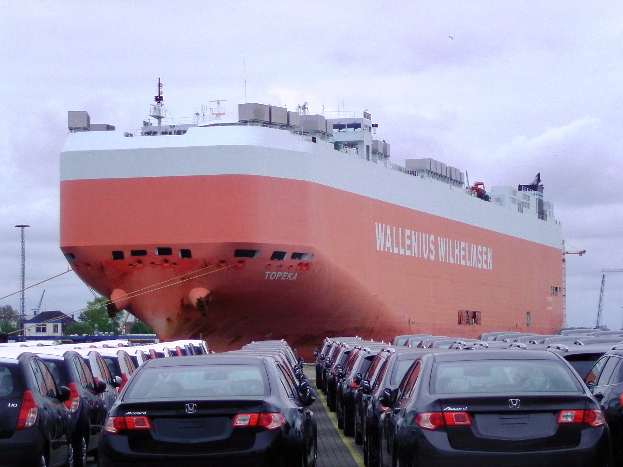 The car carrier Topeka in Bremerhaven